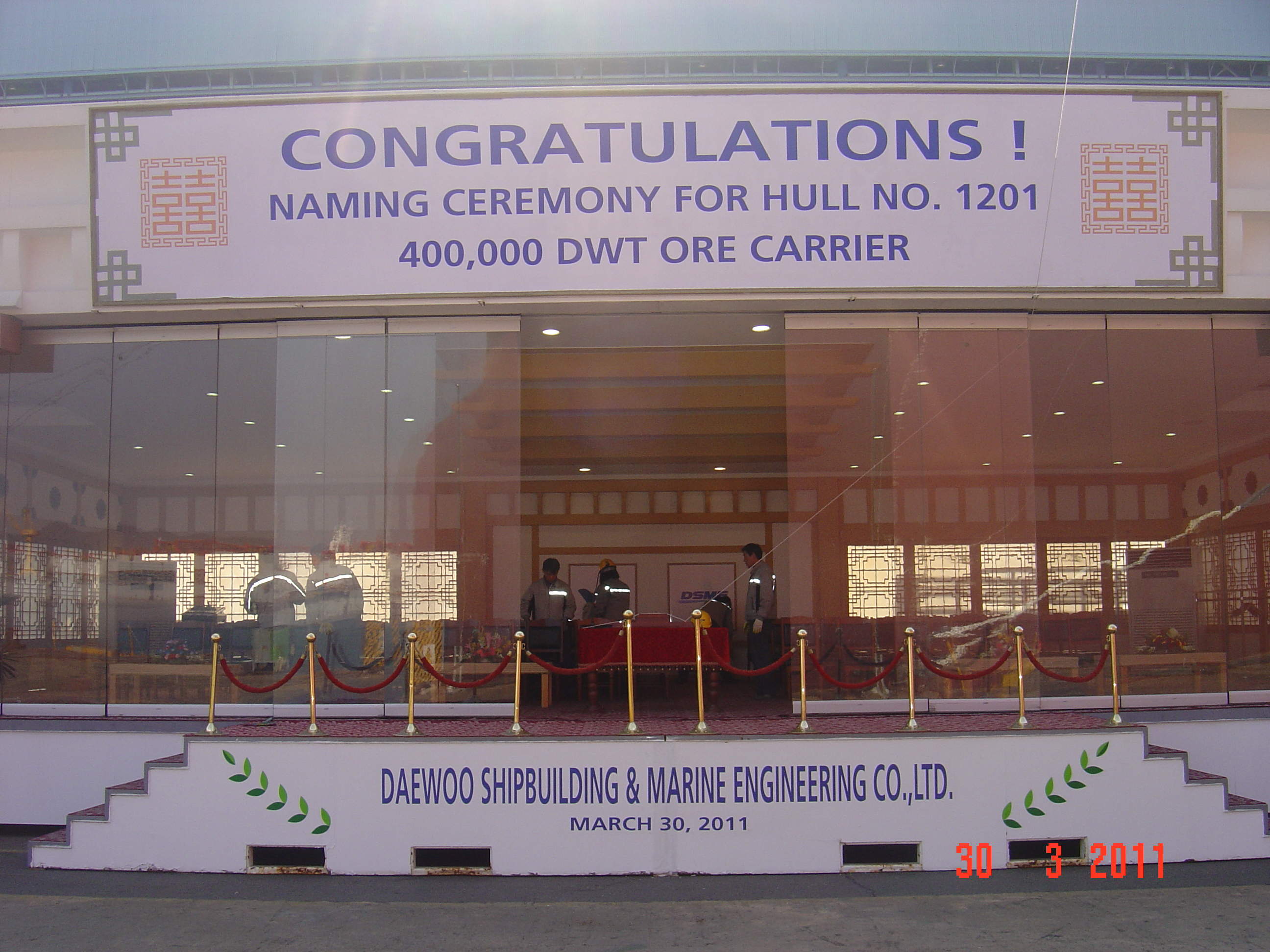 Vale Brasil